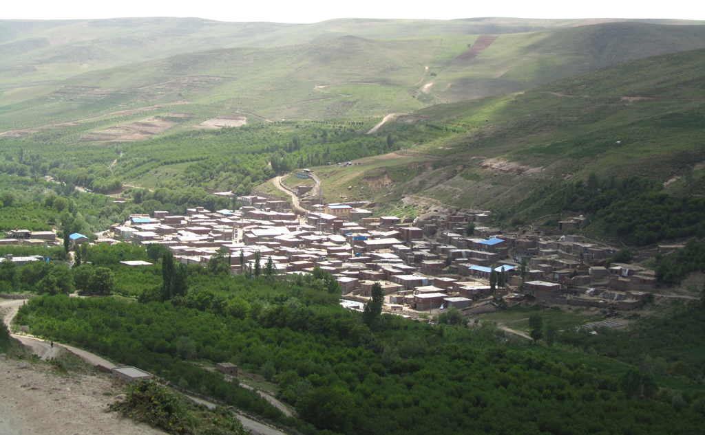 A village near Maragheh.